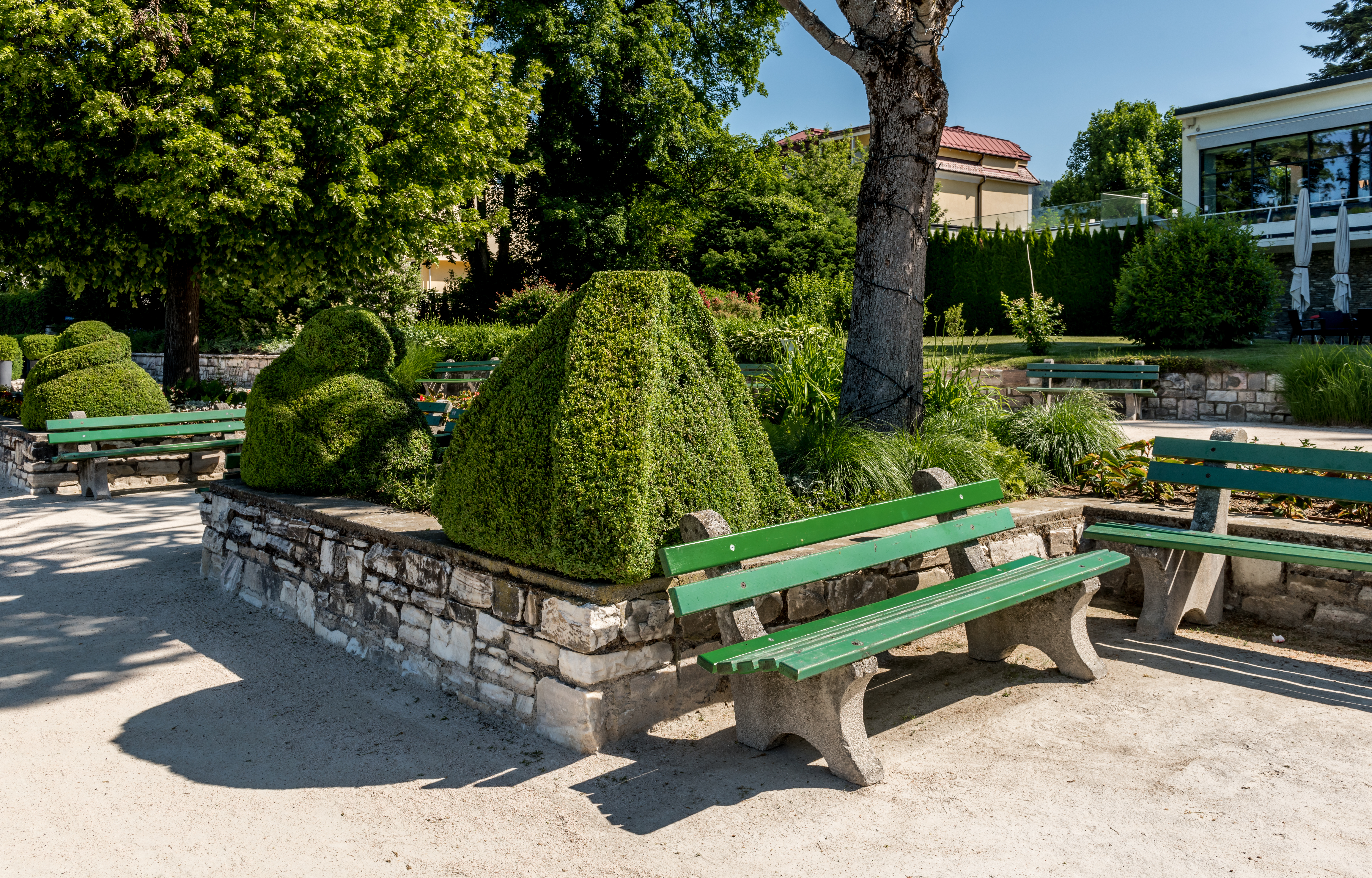 Bench, buxus cultivars and flower-bed on the vernal Johannes-Brahms-Promenade in front of the Parkhotel, municipality Poertschach on the Lake Woerth, district Klagenfurt Land, Carinthia, Austria, EU